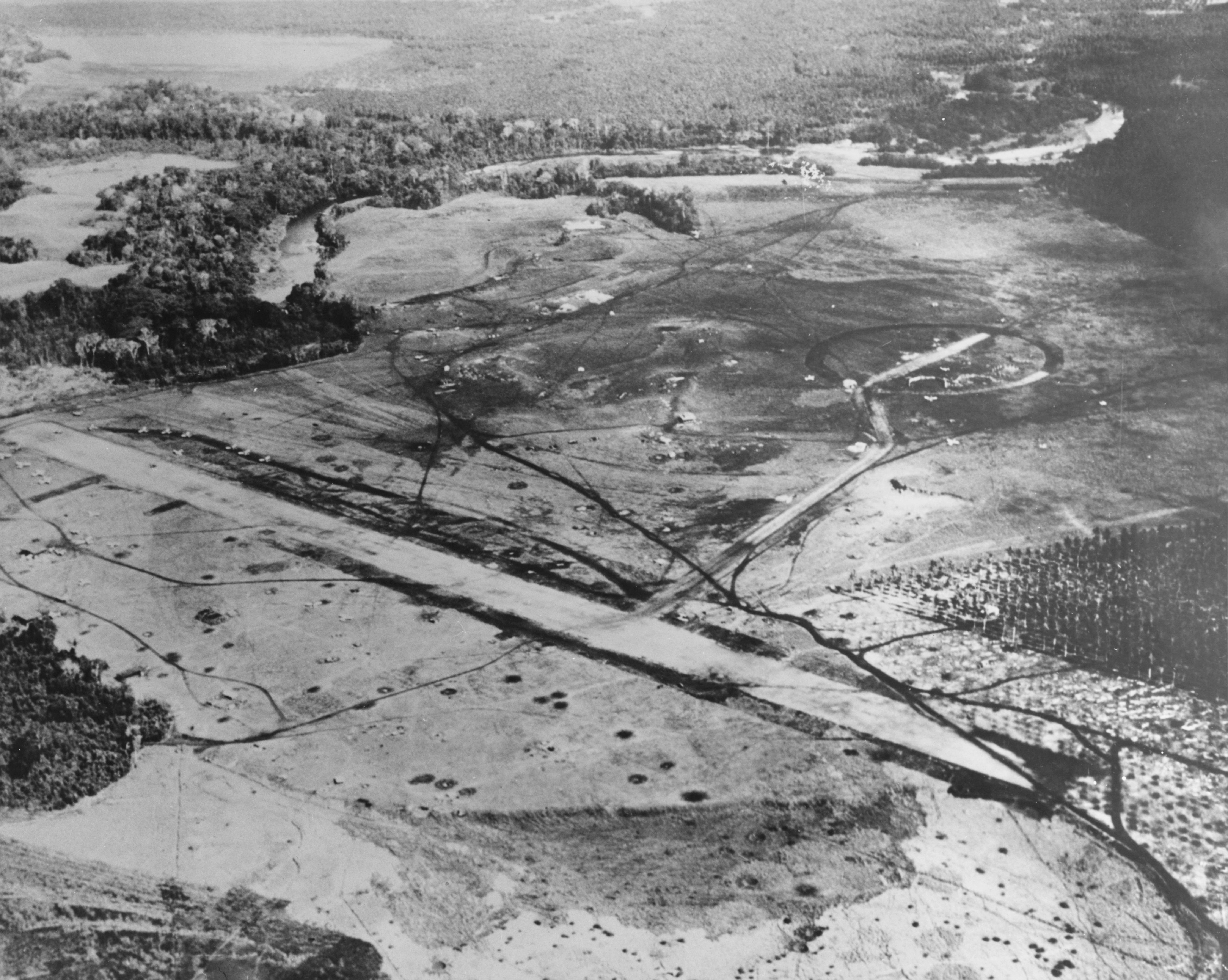 Henderson Field, Guadalcanal, photographed from a USS Saratoga (CV-3) plane in the latter part of August 1942, after U.S. aircraft had begun to use the airfield. The view looks about northwest, with the Lunga River running across the upper portion of the image. Iron Bottom Sound is just out of view at the top. Several planes are parked to the left, and numerous bomb and shell craters are visible.